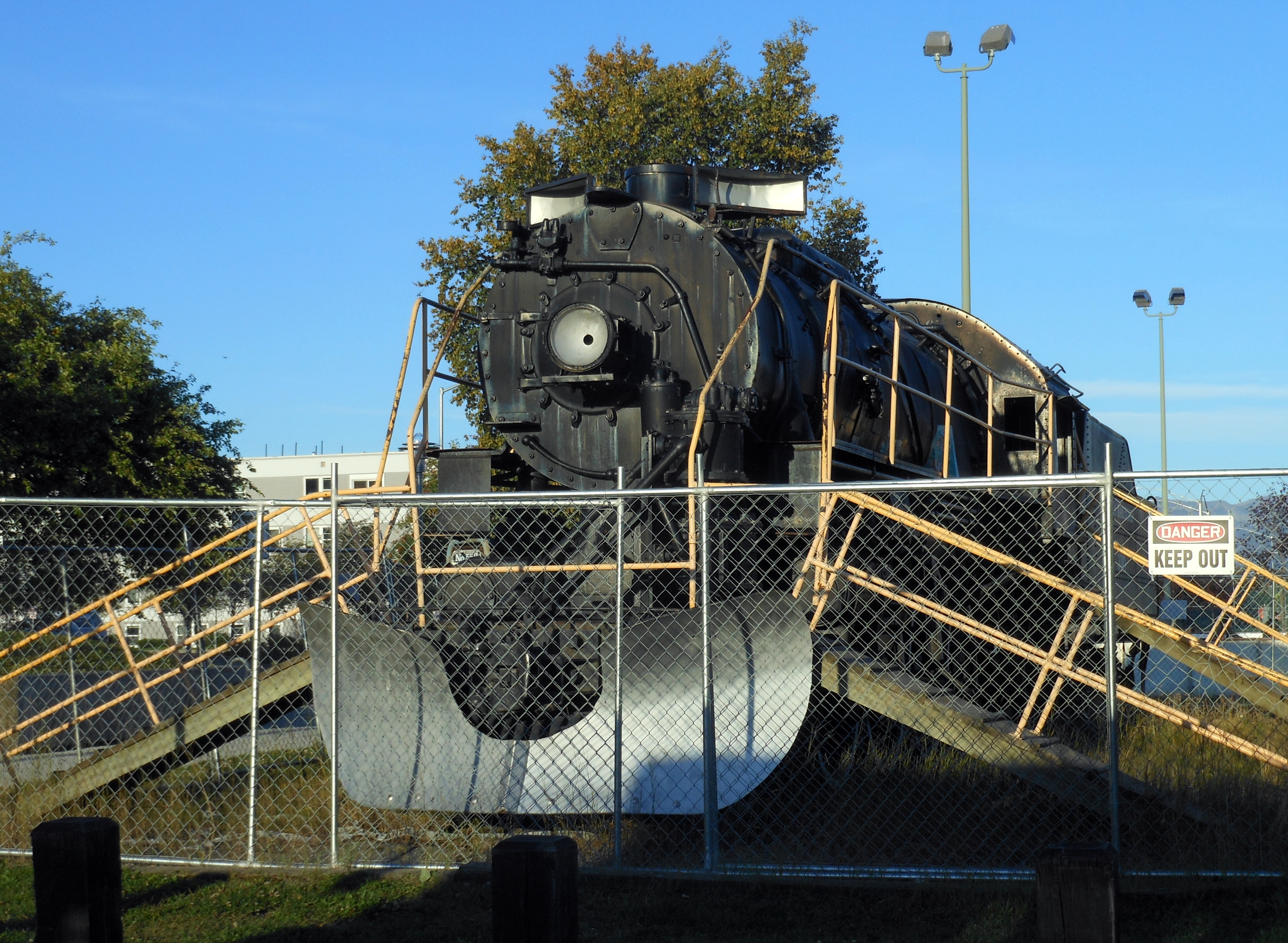 This old locomotive, formerly operated by the Alaska Railroad, has sat on the Delaney Park Strip at the southeast corner of Ninth Avenue and E Street for several decades. I'm not sure how long exactly, but I was playing on this thing when I was a kid. I believe it's called No. 556, but again, it's been a while since I paid close attention. At the time of this photo, the locomotive was fenced off from public access while some sort of work was taking place.